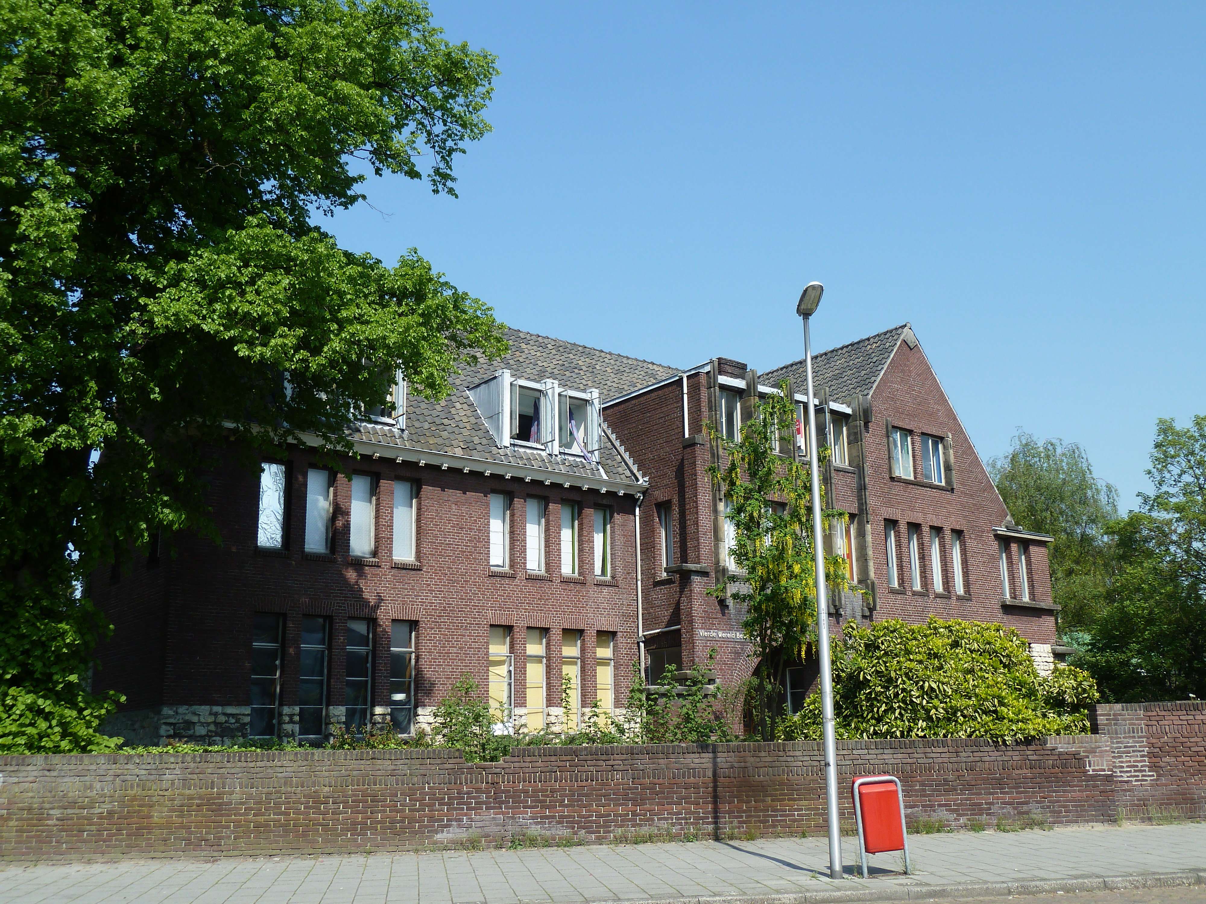 Kerkraderweg 9, Heerlen, Limburg, the Netherlands